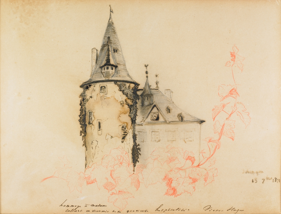 Drawing by Victor Hugo of the medieval tower of Schengen castle